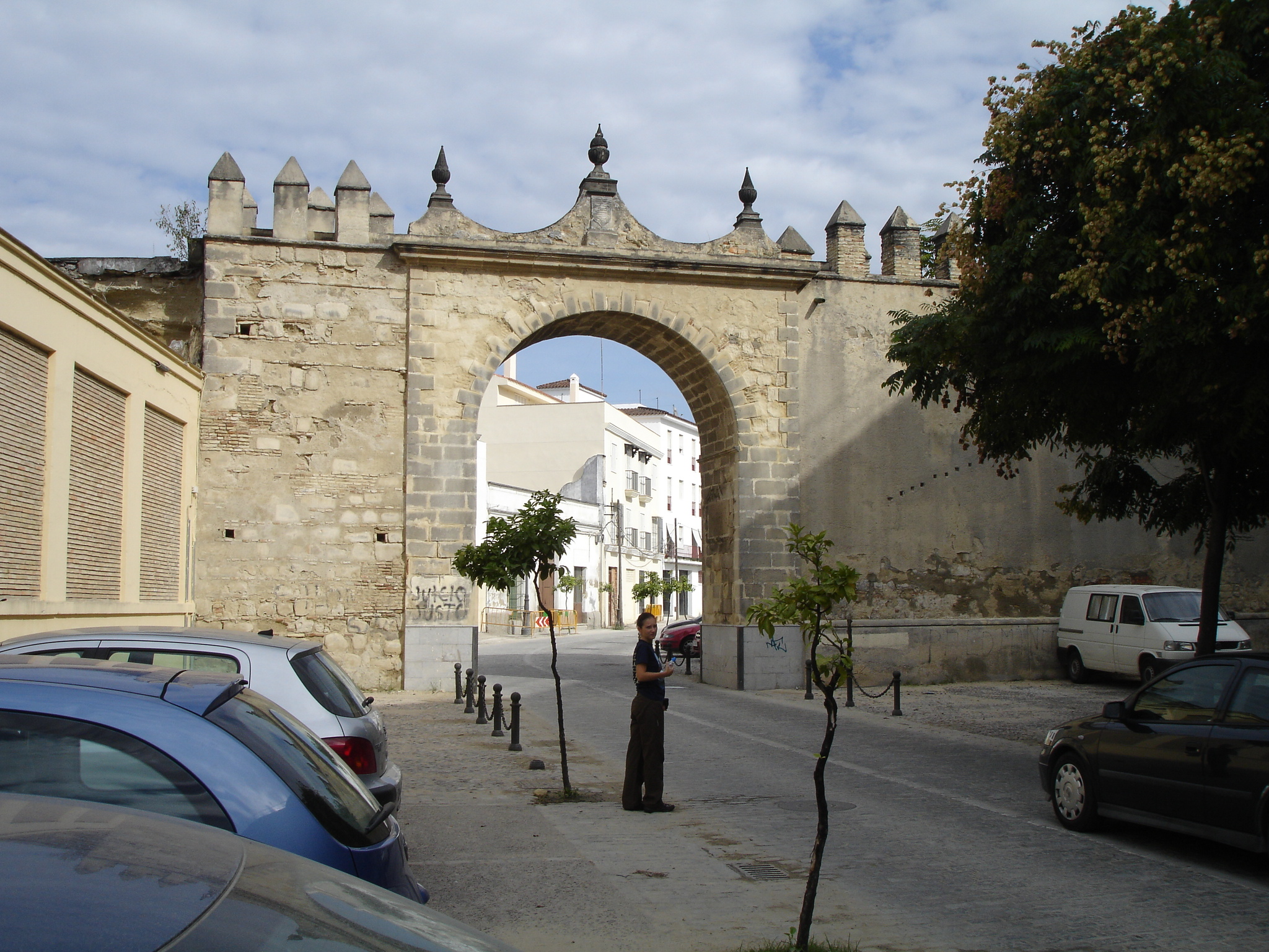 Town Wall Entrance in Jerez de la Frontera, Andalusia (Spain)